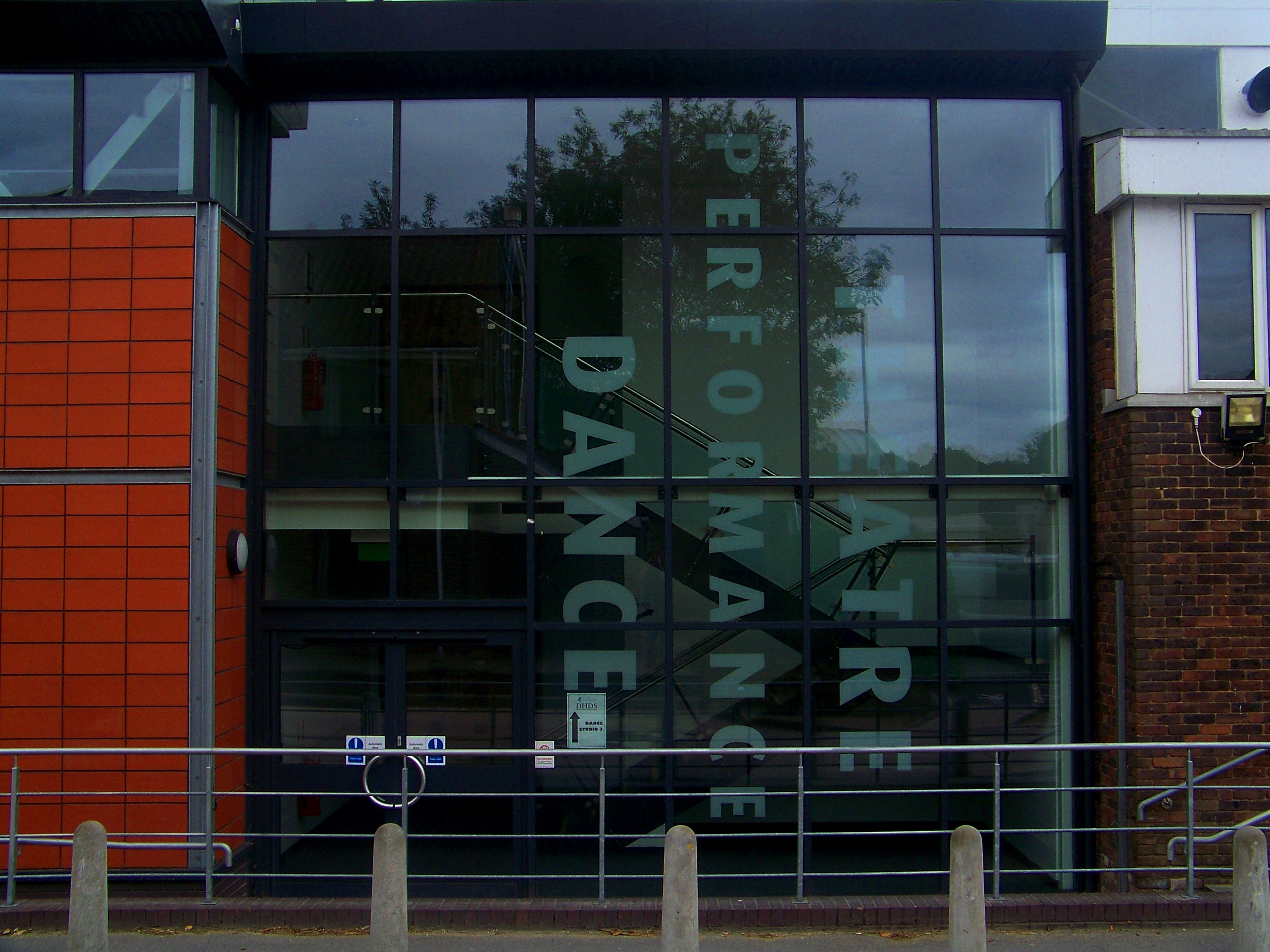 Entrance to the Dance and Drama Studios, University of Chichester (West Sussex, England).